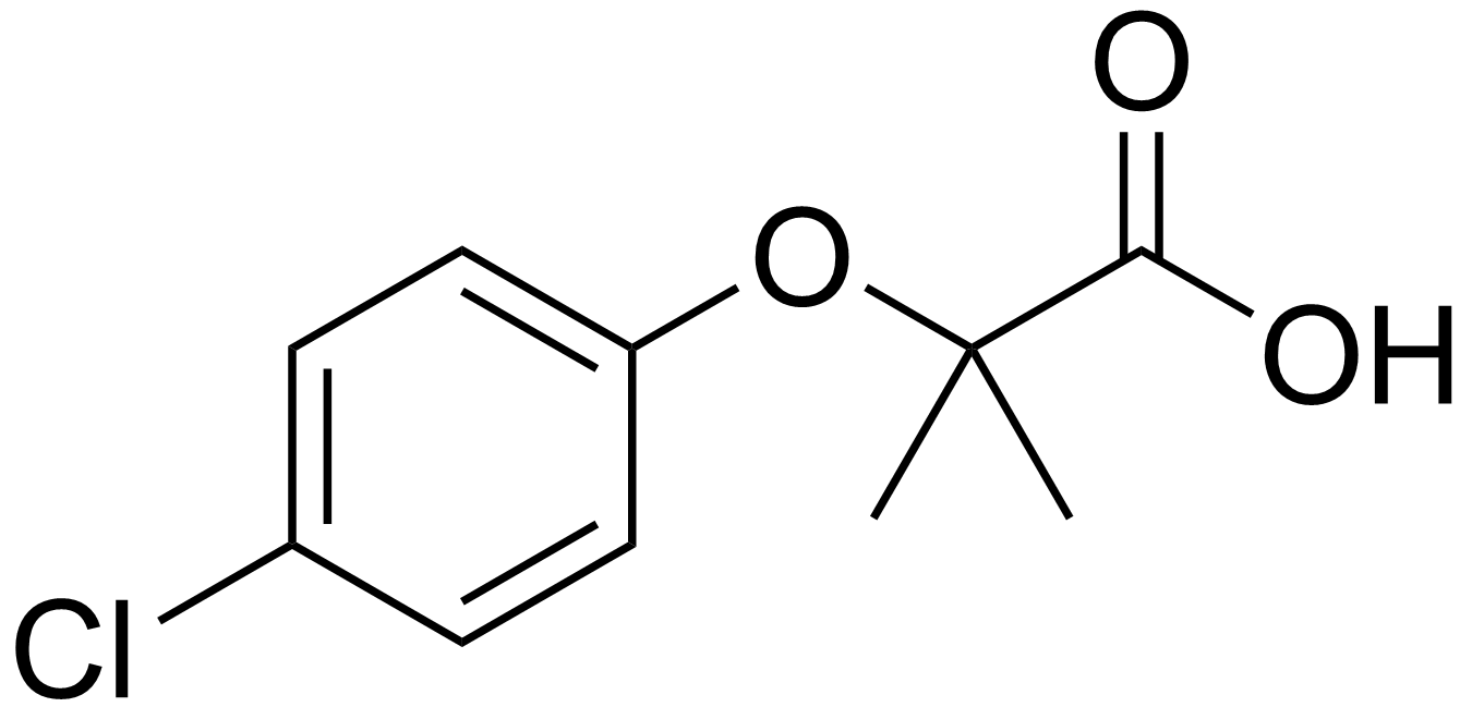 chemical structure of clofibric acid